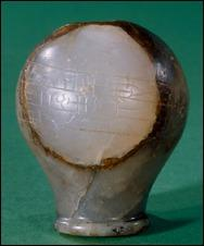 an Assyrian mace head with inscriptions.